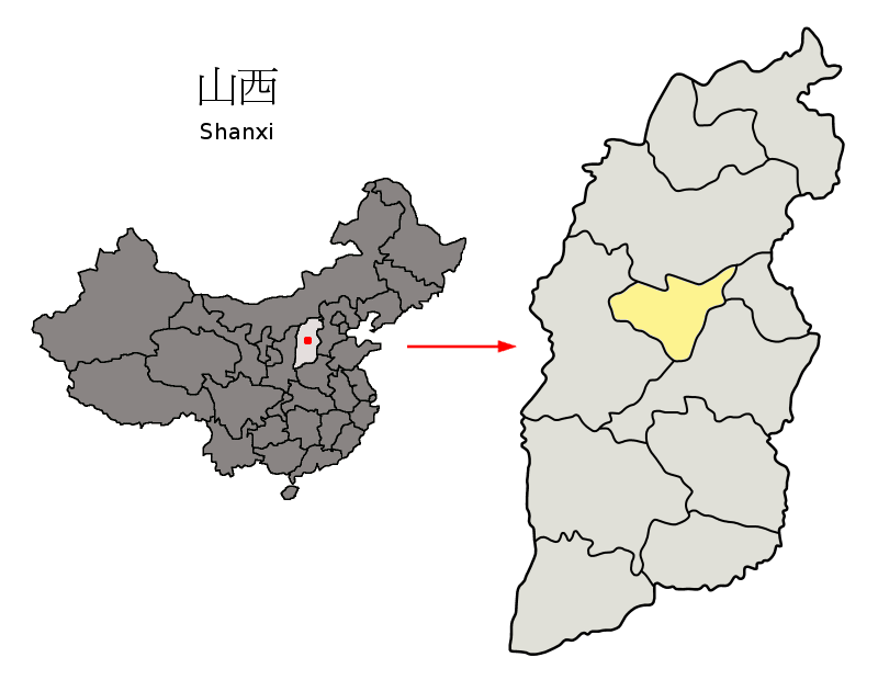 Location of Taiyuan Prefecture (yellow) within Shanxi Province of China Map drawn in december 2007 using various sources, mainly : Shanxi Province administrative regions GIS data: 1:1M, County level, 1990 Shanxi Counties map from